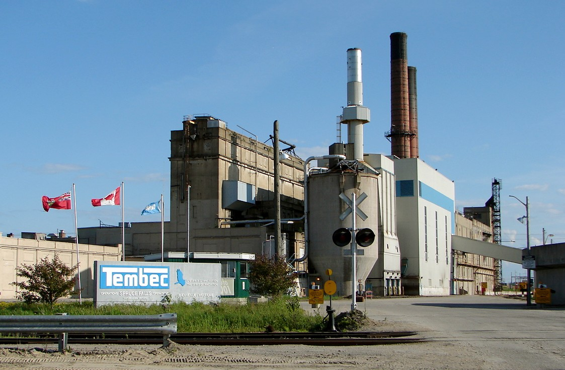 Tembec mill in Kapuskasing, Ontario, Canada